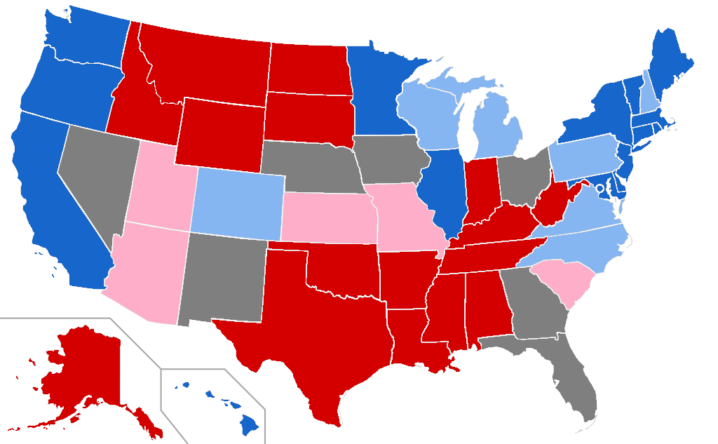 electoral map